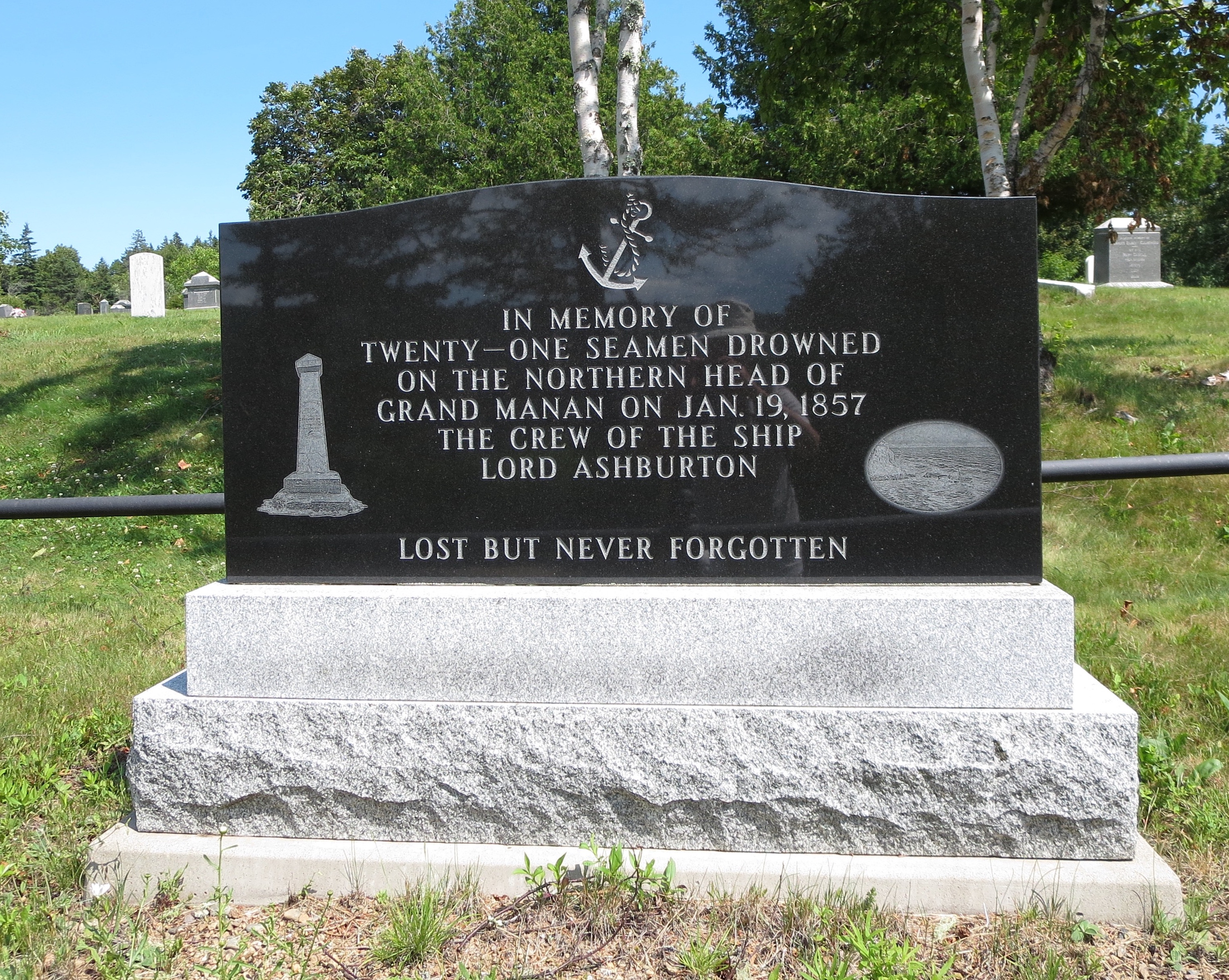 Monument erected in the North Head Grand Manan cemetery in 2011 commemorating the 1857 Lord Ashburton shipwreck